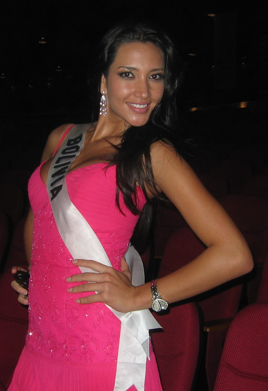 Katherine David Céspedes Miss Bolivia Universe 2008